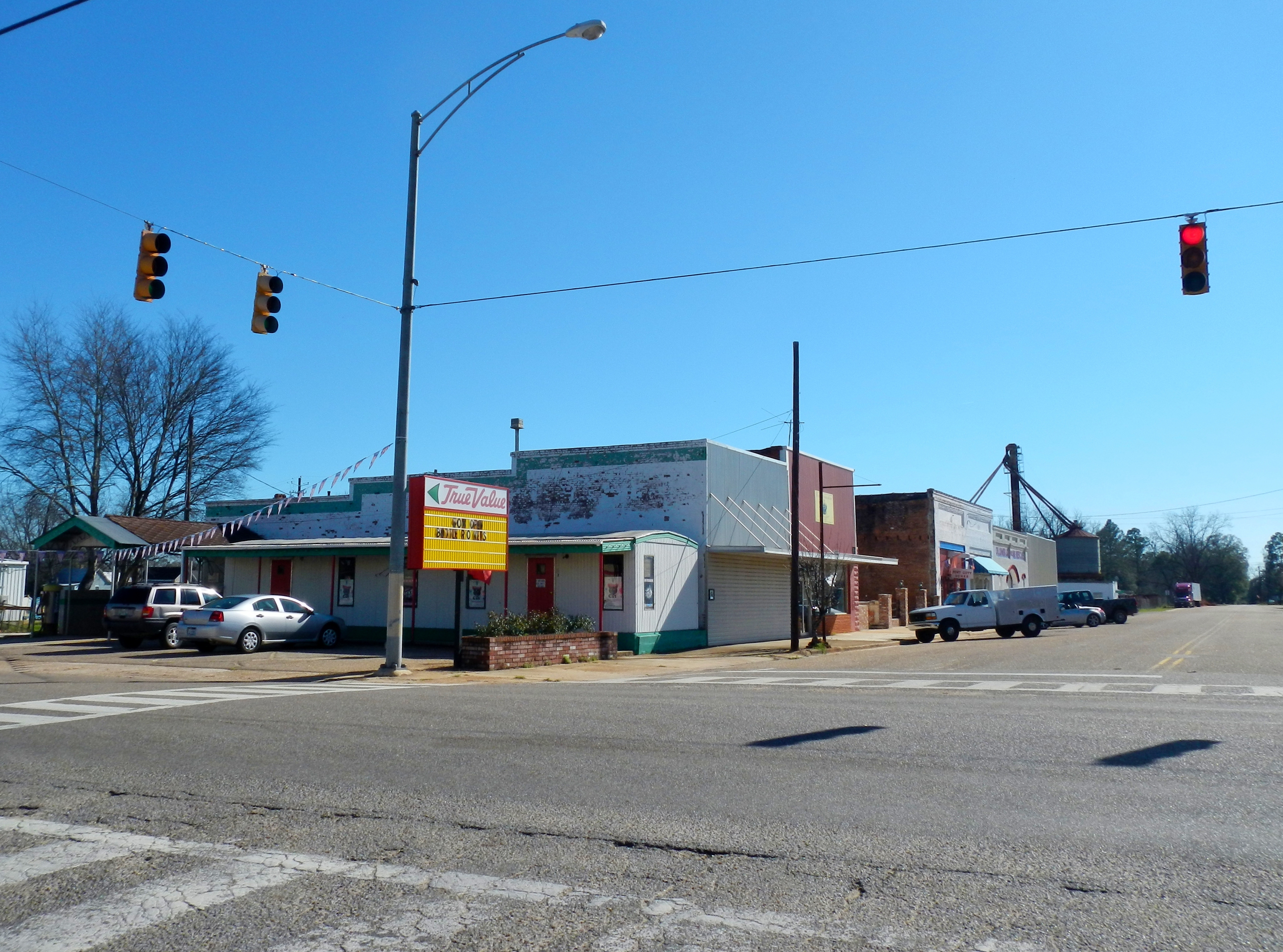 This is a photograph of Columbia, Alabama.